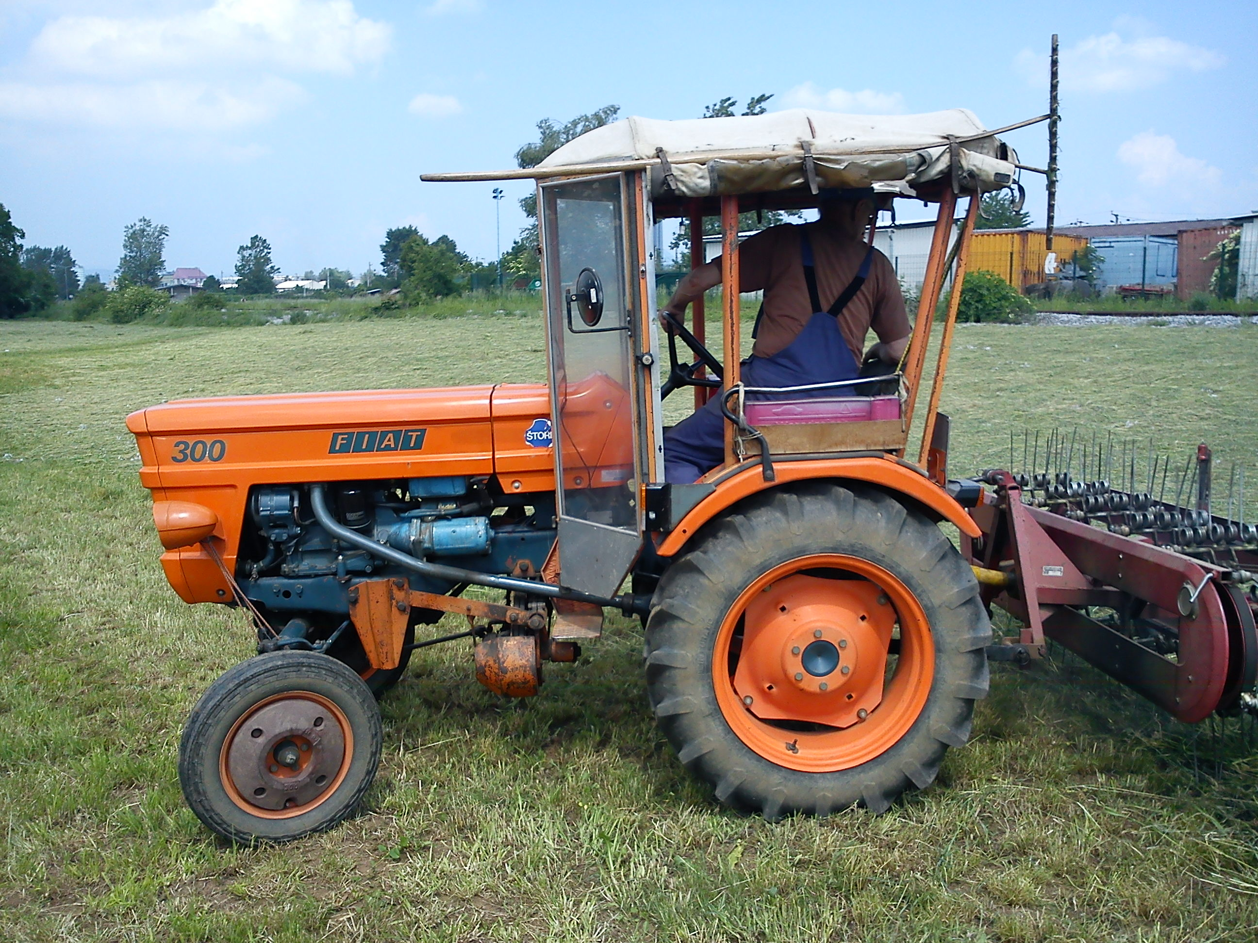 Tractor FIAT 300 (production years 1971–1978, engine 1700 ccm, 31 hp, 2 cylinders) with a belt rake.